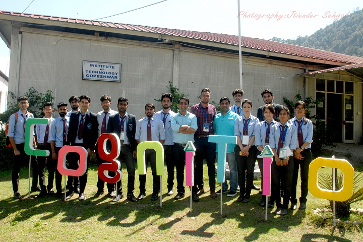 formal name